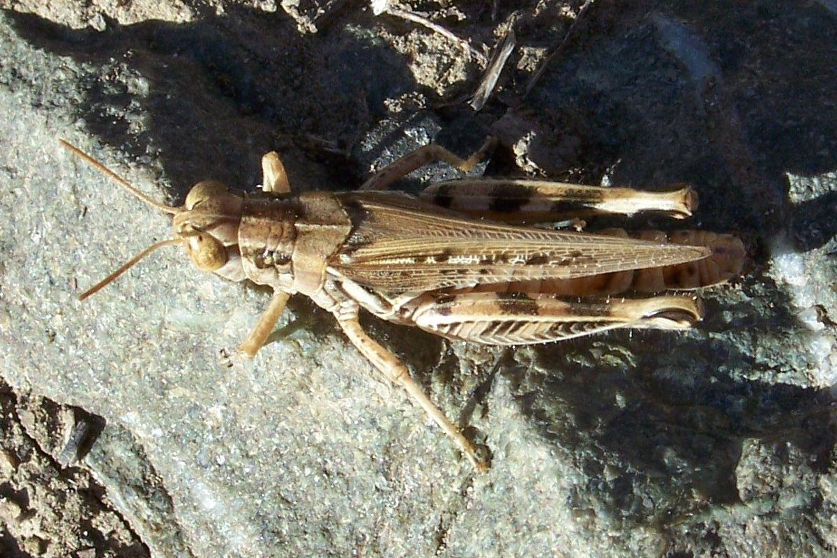 Devastating Grasshopper. Female